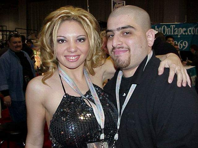 Pornographic actress Kiki Daire with founder Adam Grayson